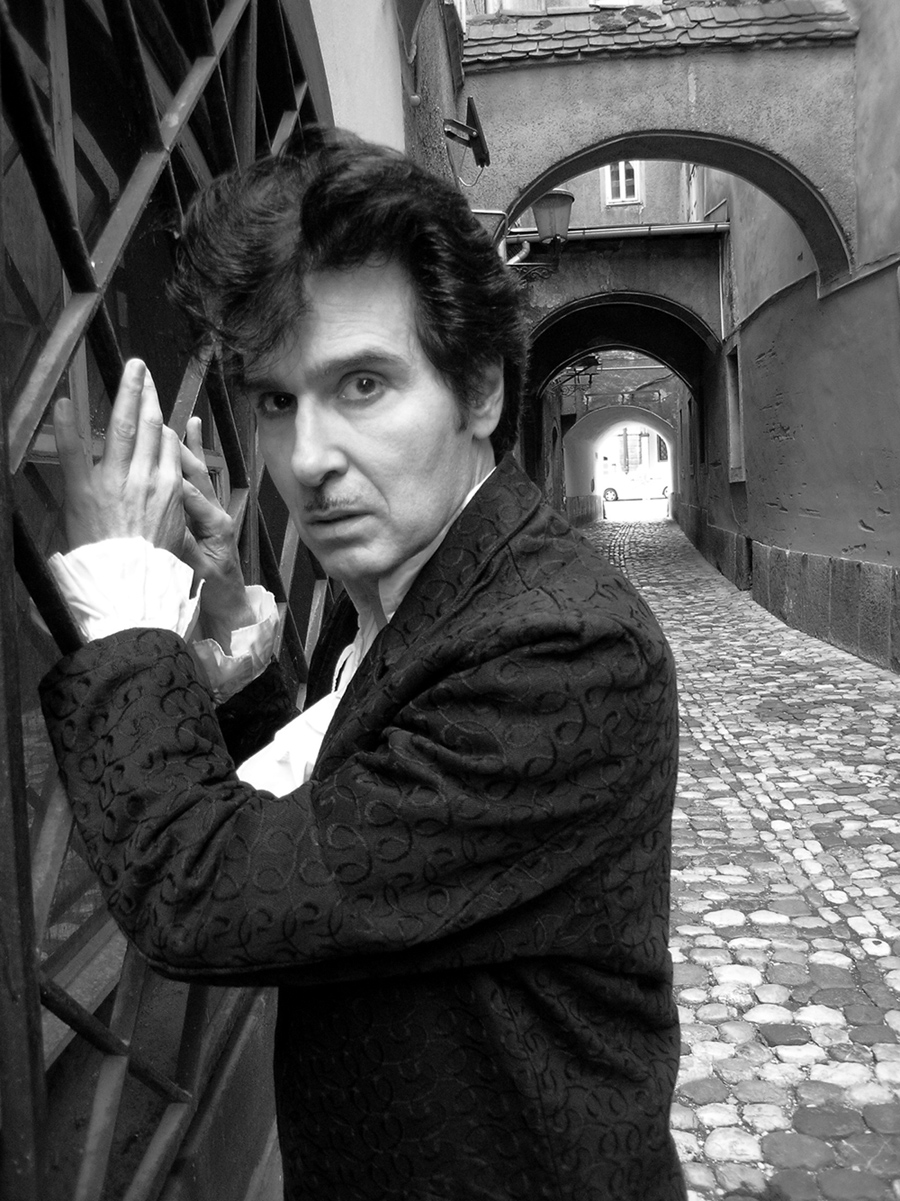 Photo portrays Tav Falco in a side lane in Ljubljana, Slovenia, in 2004, self portrait. Photographer is Tav Falco, whose contact web address is and whose public band email address is username Pantherhowl at the domain. The self-portrait has been taken in the passage from Fish Square to Town Square.